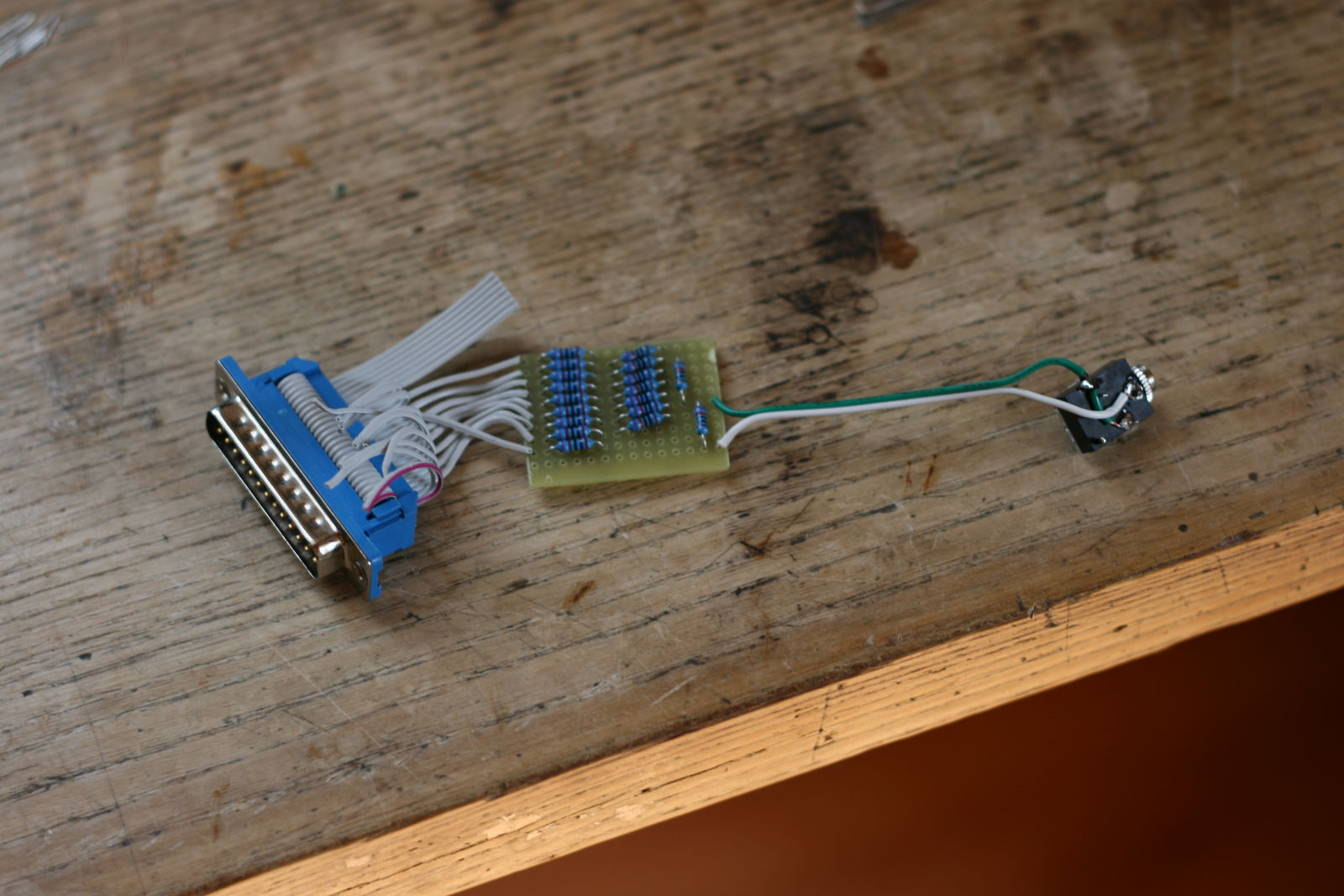 simple sound card